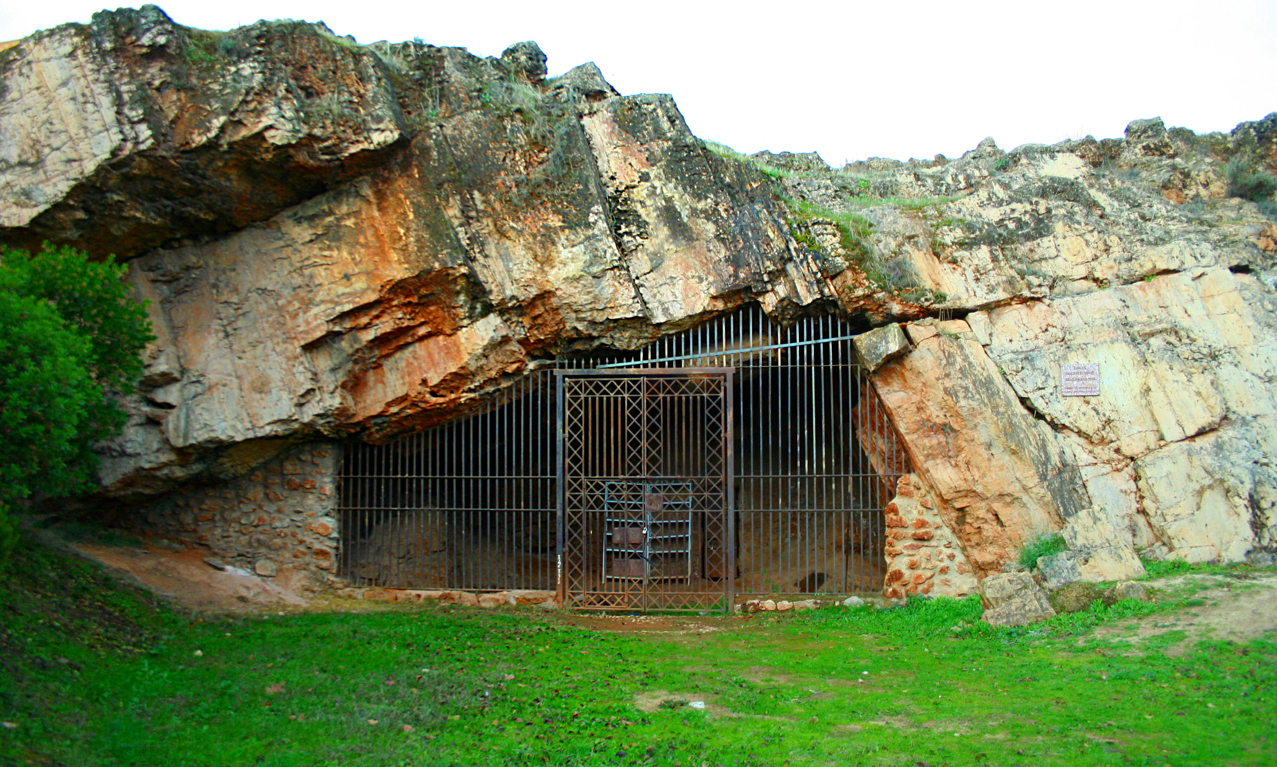 Actual entrance at the Cave of Maltravieso, Cáceres, Extremadura, Spain.